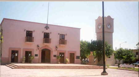 City view of Downtown Agualeguas, Nuevo León (Mexico)